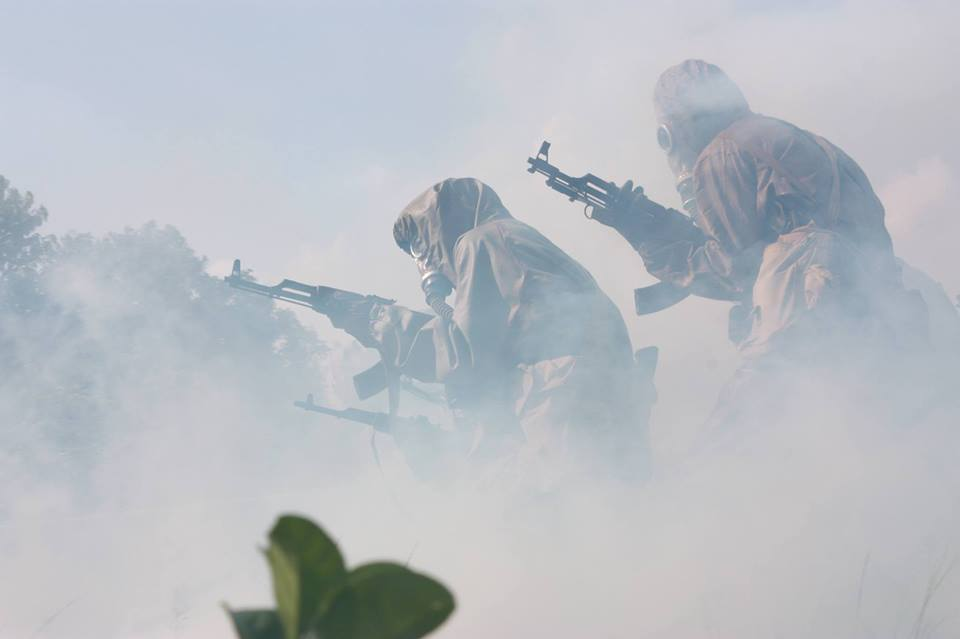 Vietnamese Chemical corps